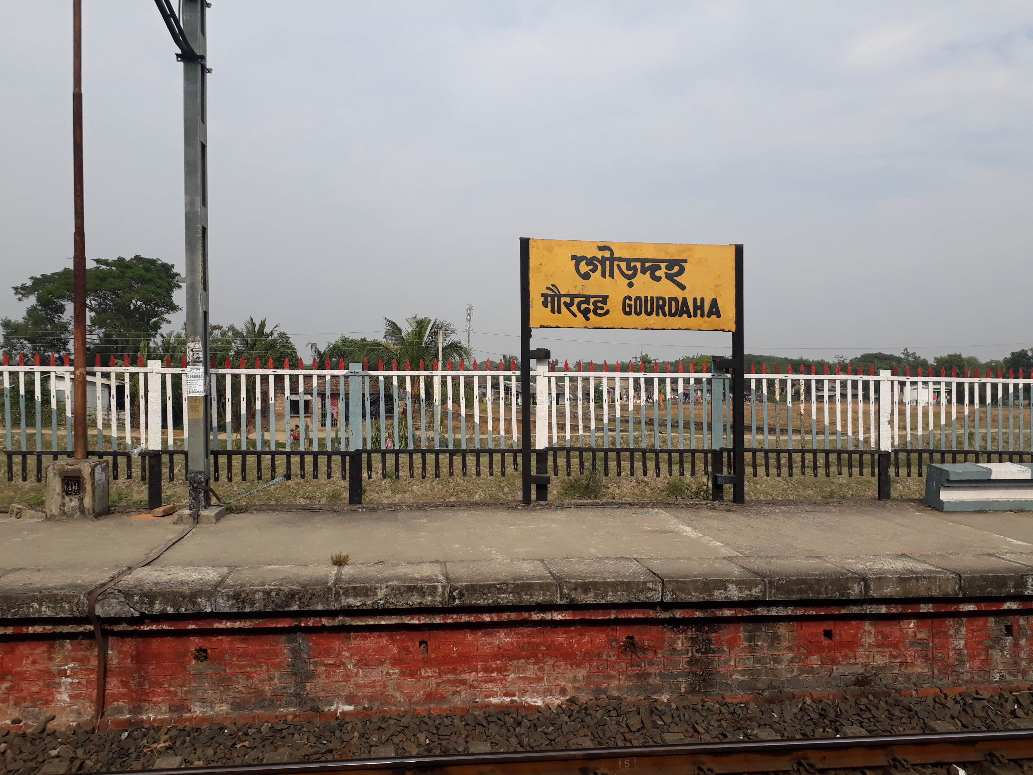 Railway stations of Baruipur to Canning route, Sealdah South Line